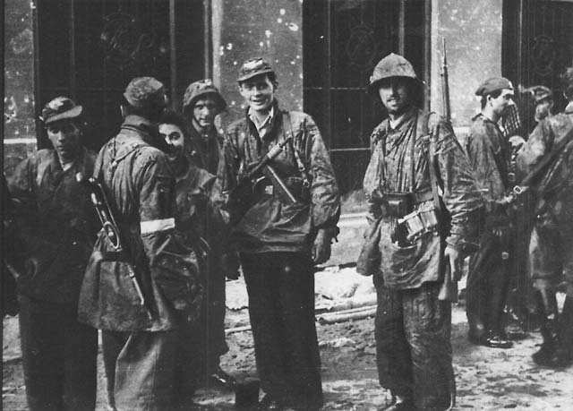 Warsaw Uprising: Soldiers from "Maciek" Company of "Zośka" Battalion part of "Radosław" Regiment after several hour sewer march from placu Krasińskich to Warecka street in Śródmieście district, early morning on September 2, 1944.